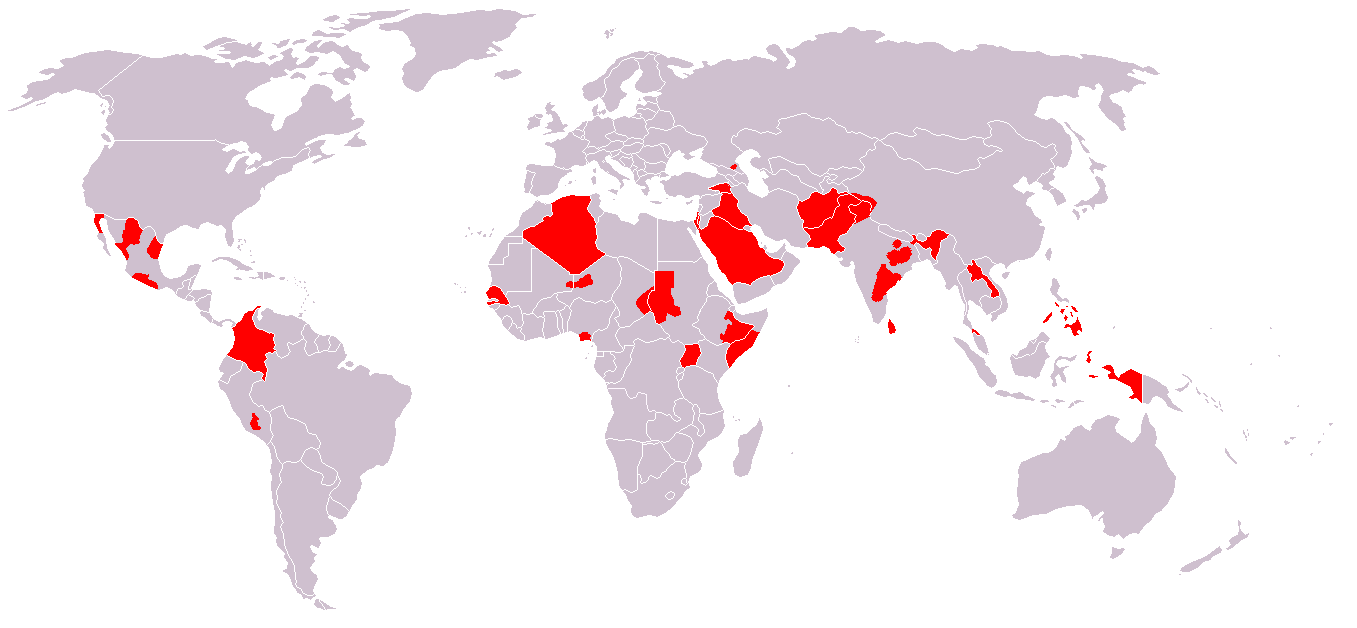 World Conflicts as of March 2nd, 2008. Update of last month's picture (see List of ongoing conflicts 2007-current by world map) to correspond to ongoing conflicts